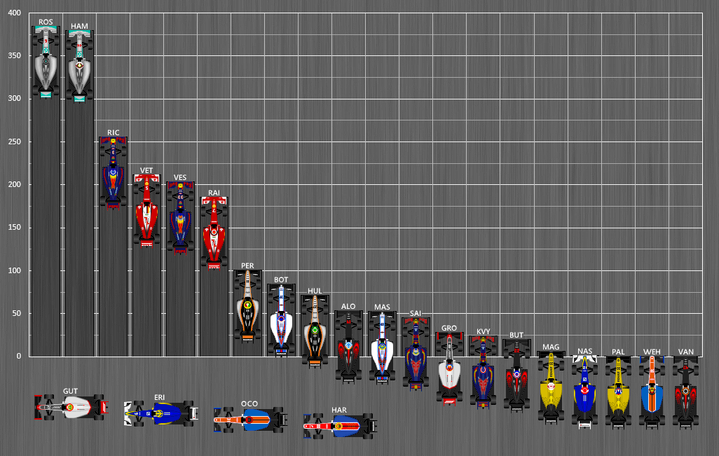 chart of final standings of the 2016 Formula One season